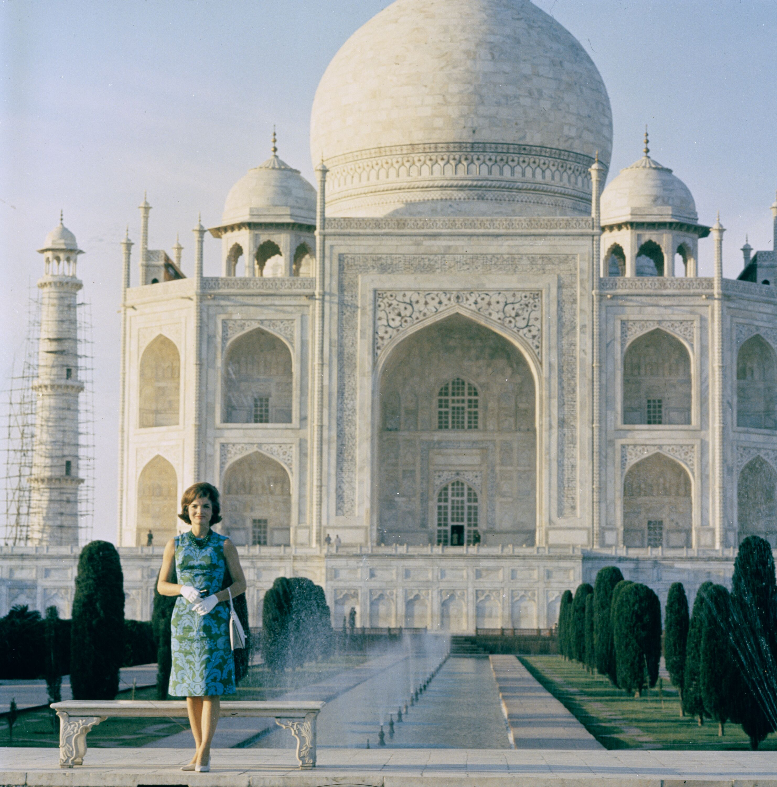 First Lady Jacqueline Kennedy's trip to India and Pakistan. Mrs. Kennedy at the Taj Mahal, Agra, India